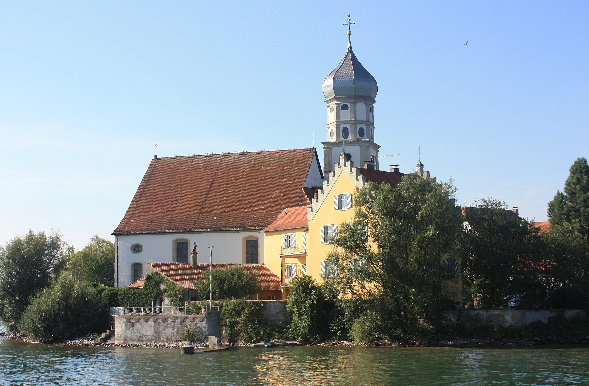 Wasserburg am Bodensee, Pfarrkirche St.Georg This is a photograph of an architectural monument.